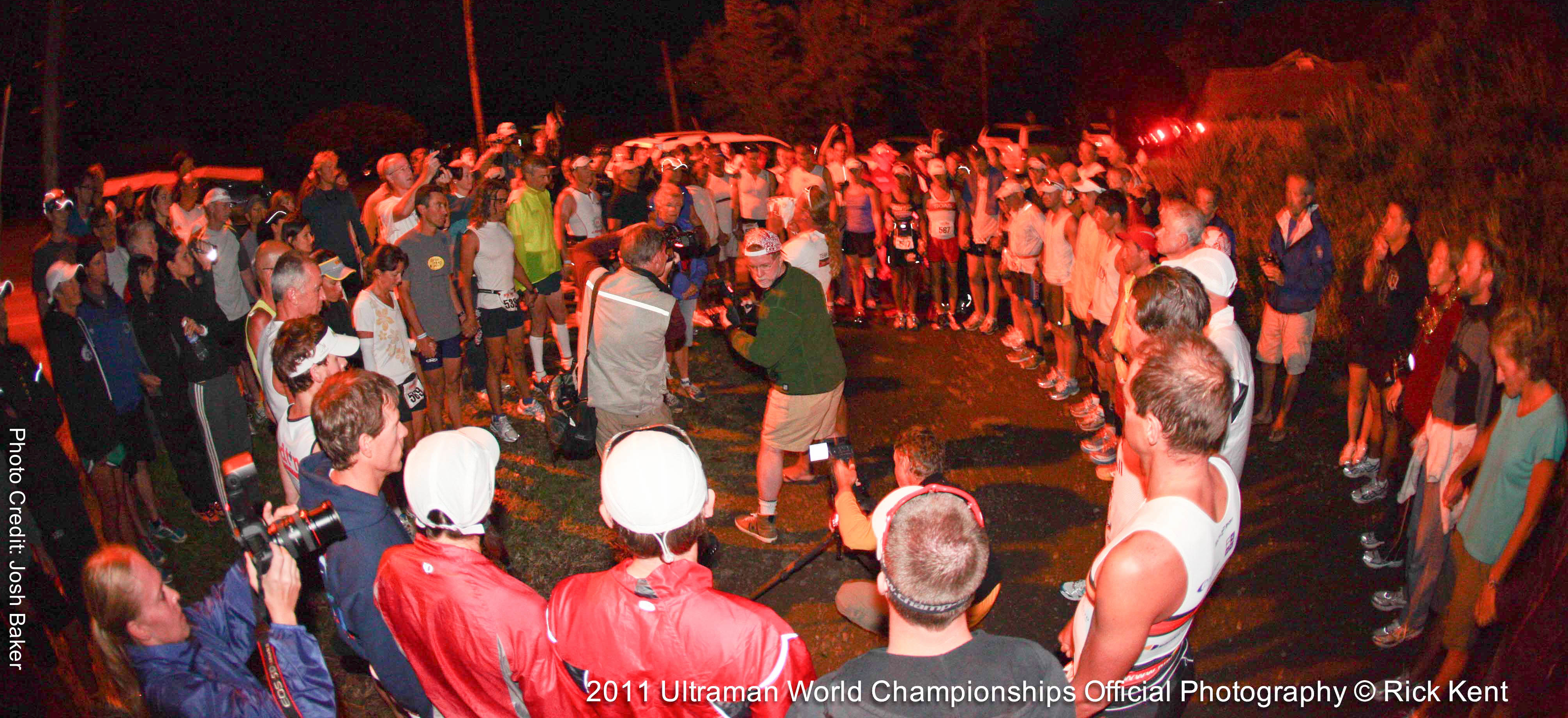 Photo by official photographer Josh Baker before Ultrman World Championships Stage Three 52.4 run. Runners are gathered into a circle with support crews and staff on an outer ring just behind. Race director Jane Bockus will say a prayer in the Hawai'i tradition of "aloha" (love), "ohana" (family), and "kokua" (help).